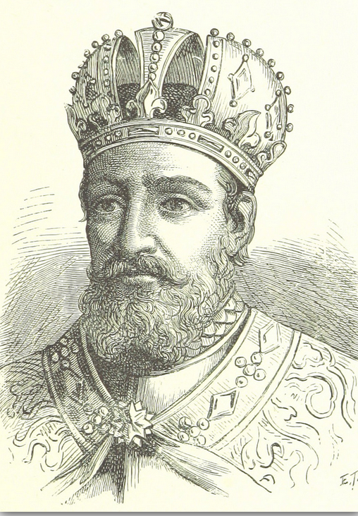 Charles the Bald, King of West Francia